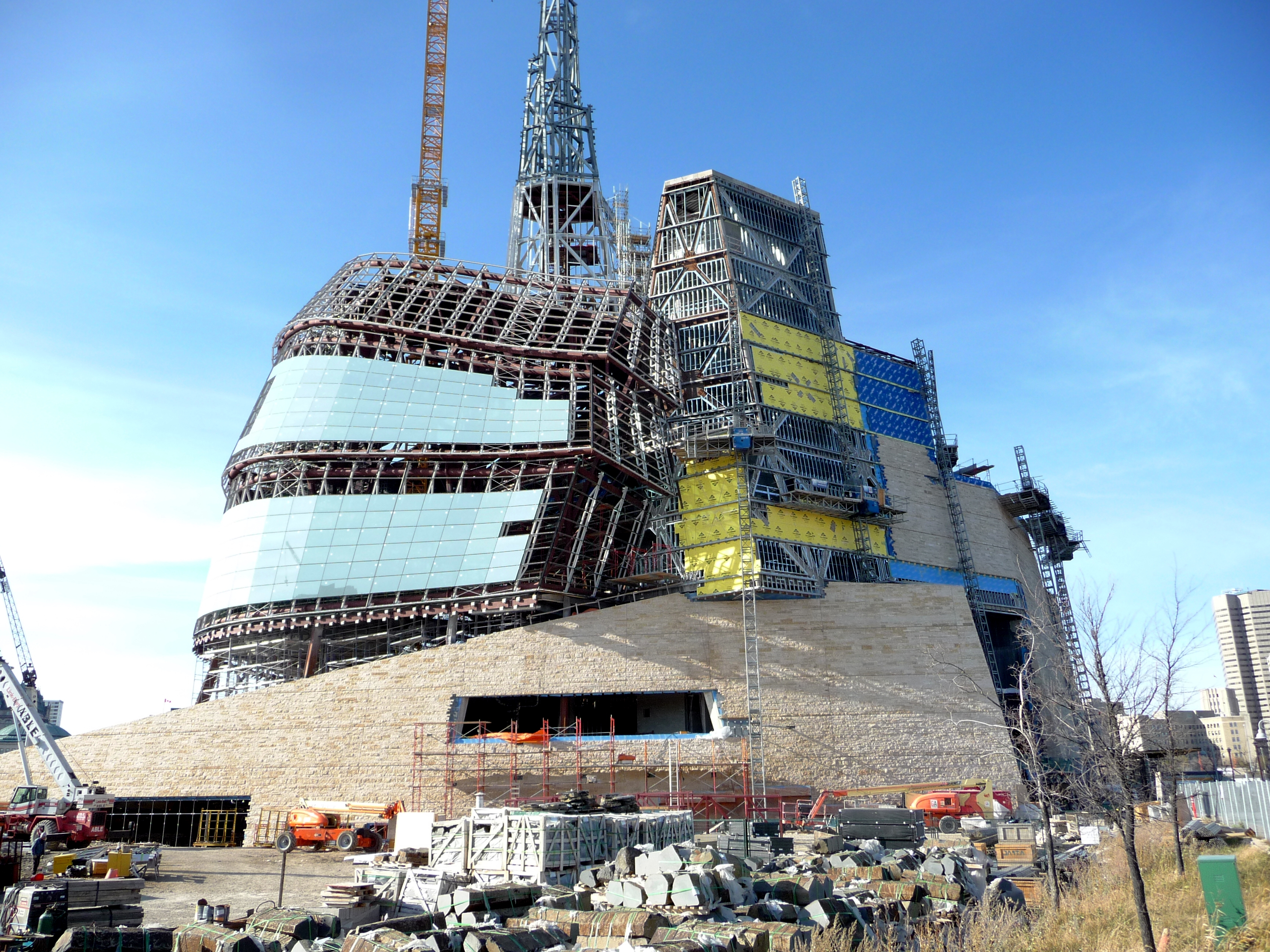 Canadian Museum for Human Rights - Mandate, Vision and Values Mandate To explore the subject of human rights, with special but not exclusive reference to Canada, in order to enhance the public's understanding of human rights, to promote respect for others, and to encourage reflection and dialogue. An Evolving Vision A key priority within the first few years of the Museum's creation will be the drafting of a collective, compelling vision that articulates the long-term aspirations and unique role that the CMHR will play in the promotion of human rights in Canada and abroad. We aim to make progress towards this development prior to the submission of the next Corporate Plan in 2010. Values The Canadian Museum for Human Rights is an embodiment of Canada's commitment to democracy, freedom, human rights, and the rule of law. Organizational values such as objectivity, innovation, and inclusiveness underpin all Museum activities so that operations mirror and advance our mandate. The Museum's status as a national institution confer a set of principles including accountability and transparency, national accessibility and engagement, collaboration, corporate citizenship, and sound research and scholarship.